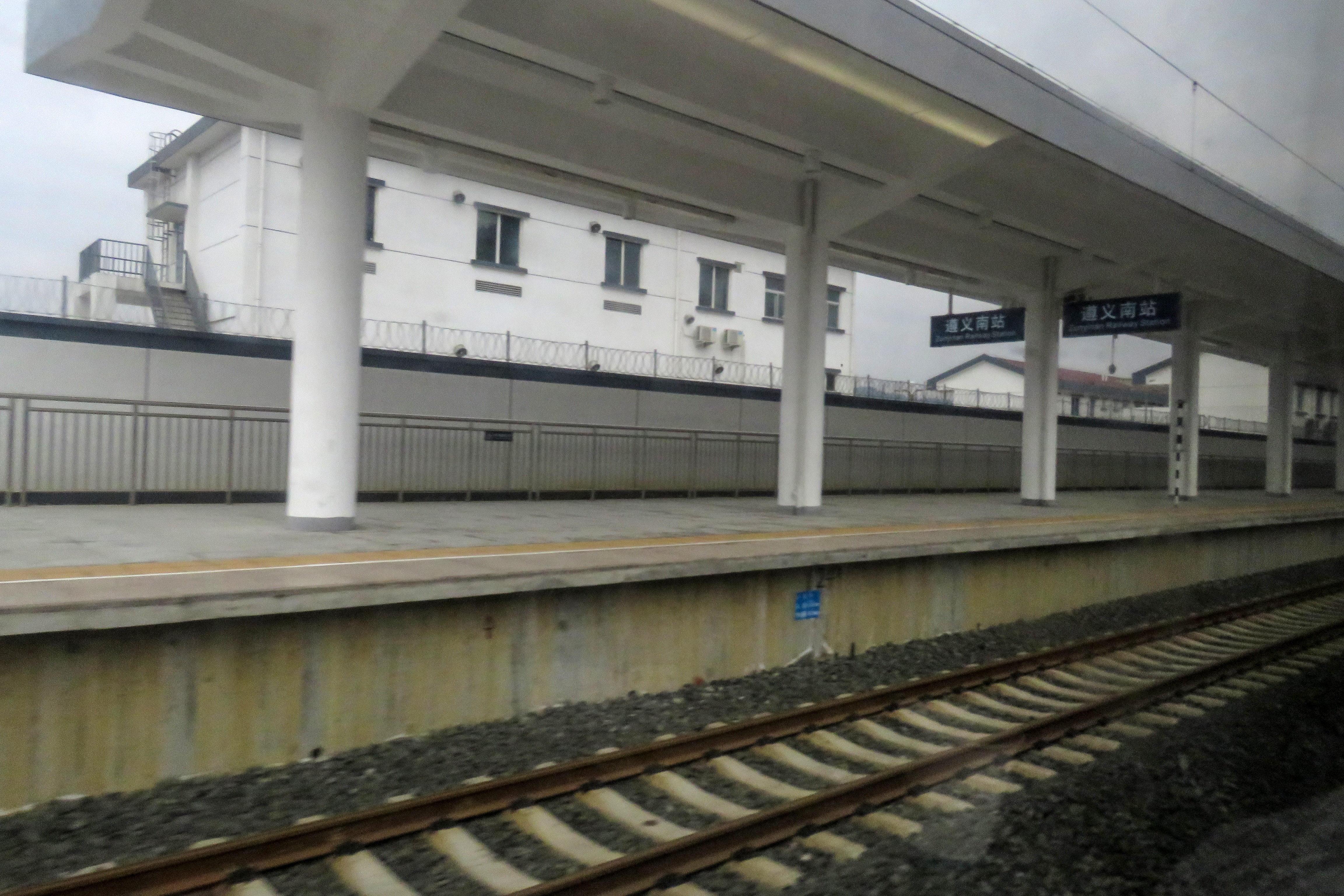 Goujiang... something relating to a meme.